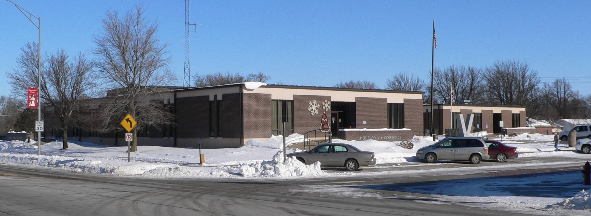 Pierce County Courthouse in Pierce, Nebraska; seen from the southwest. The courthouse was built in 1978.